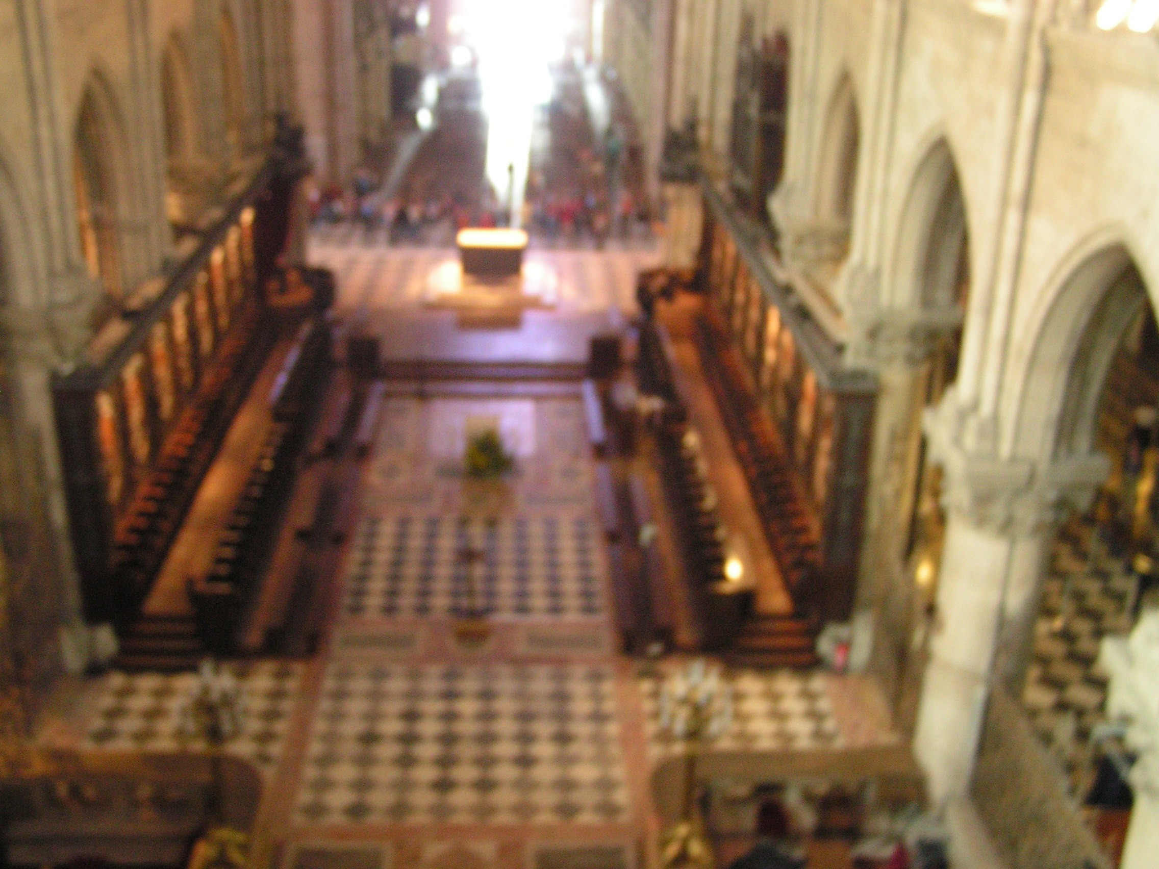 Notre Dame de Paris, Île de la Cité in Paris, France